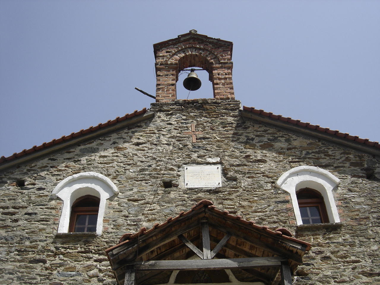 The church of Saint Nicolas, at Skoteina, formerly Morna.